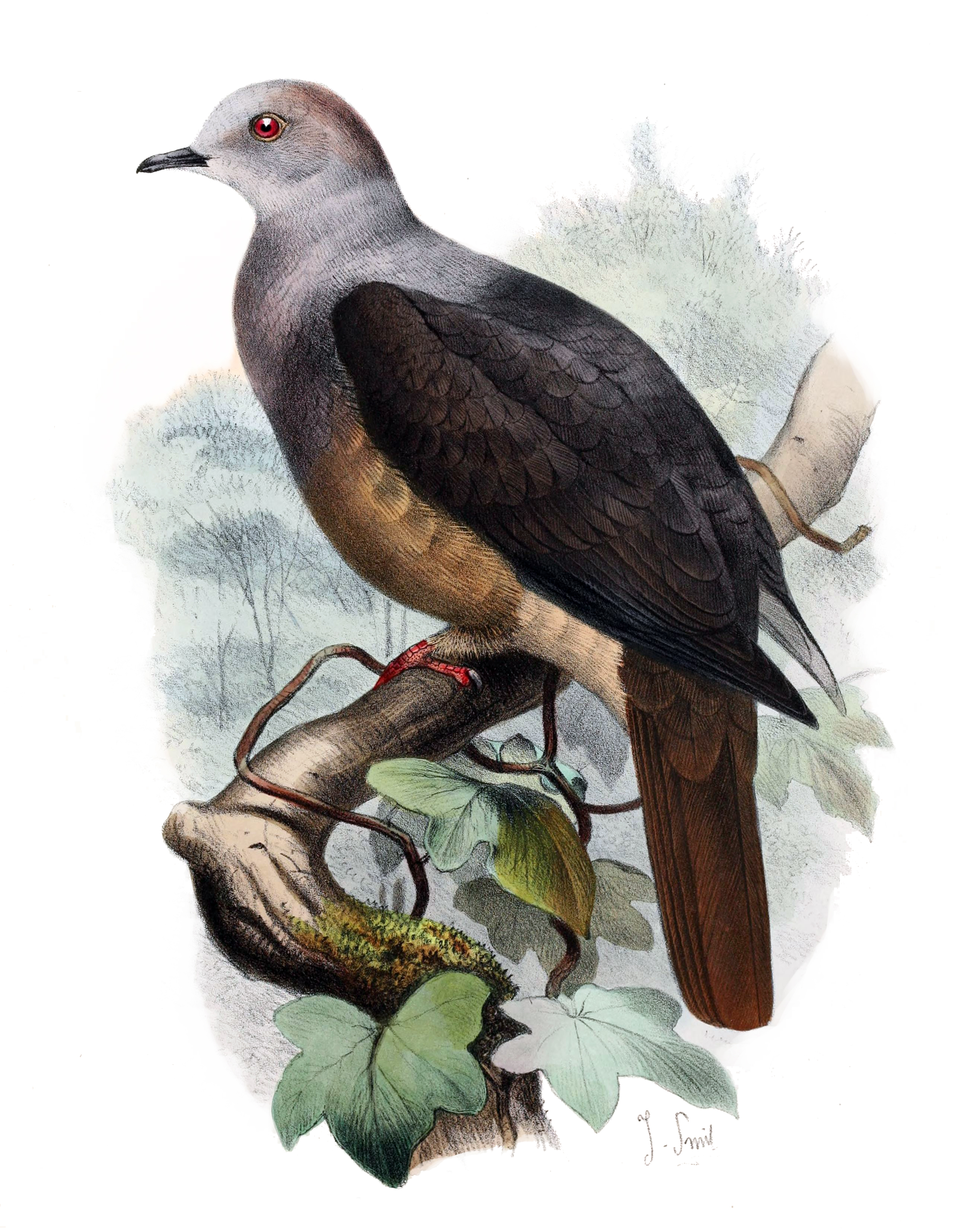 « Carpophaga latrans » = Ducula latrans (Barking Imperial Pigeon)